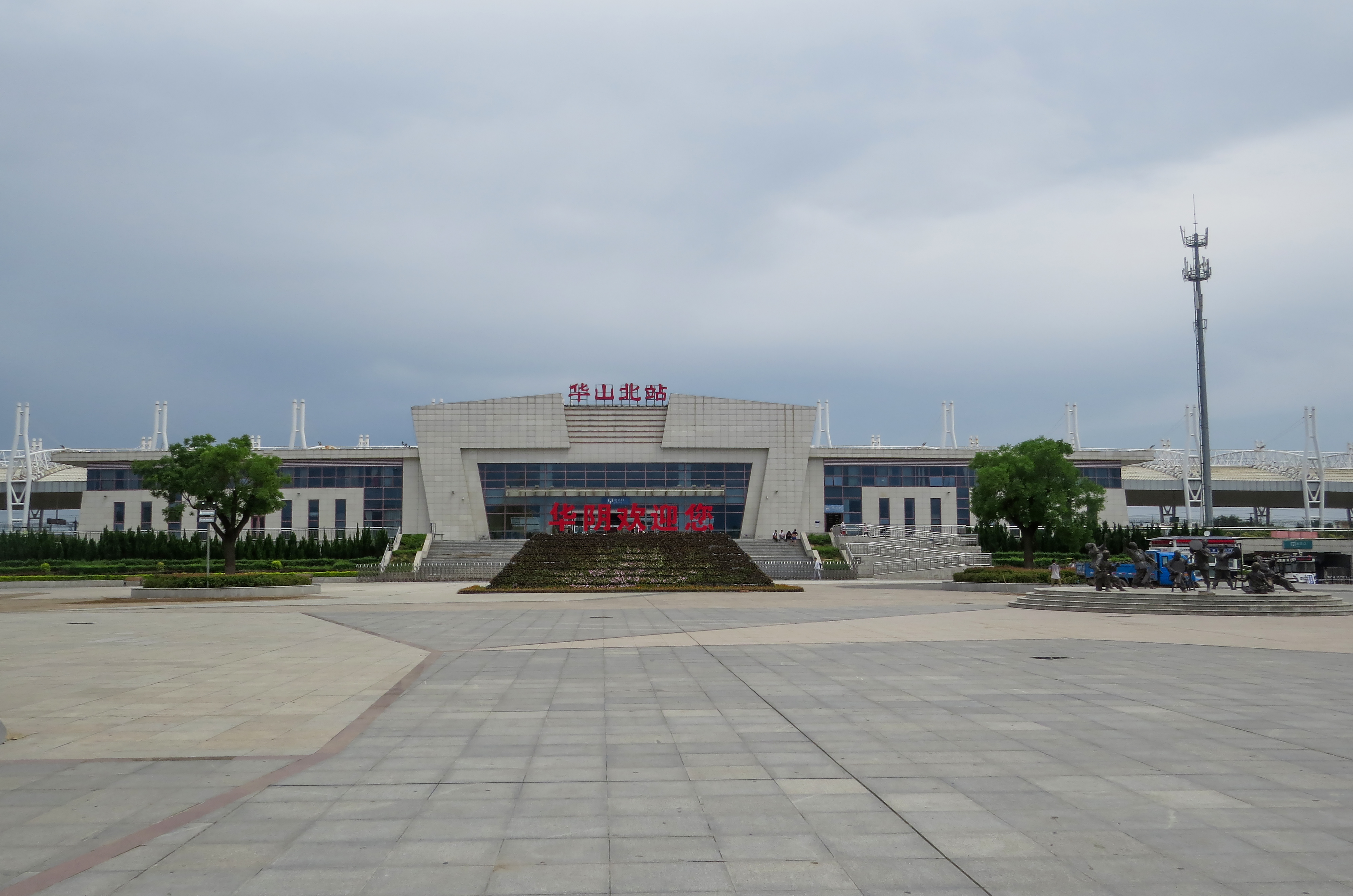 Failed to catch G1922, but there's still G662. There's even a sculpture group of Huayin Laoqiang, a local art form.